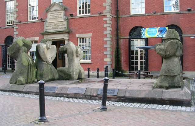 Stone Memorial outside Corn Exchange - Lune Street This commemorates those shot by the Militia in the General Strike of 1842.